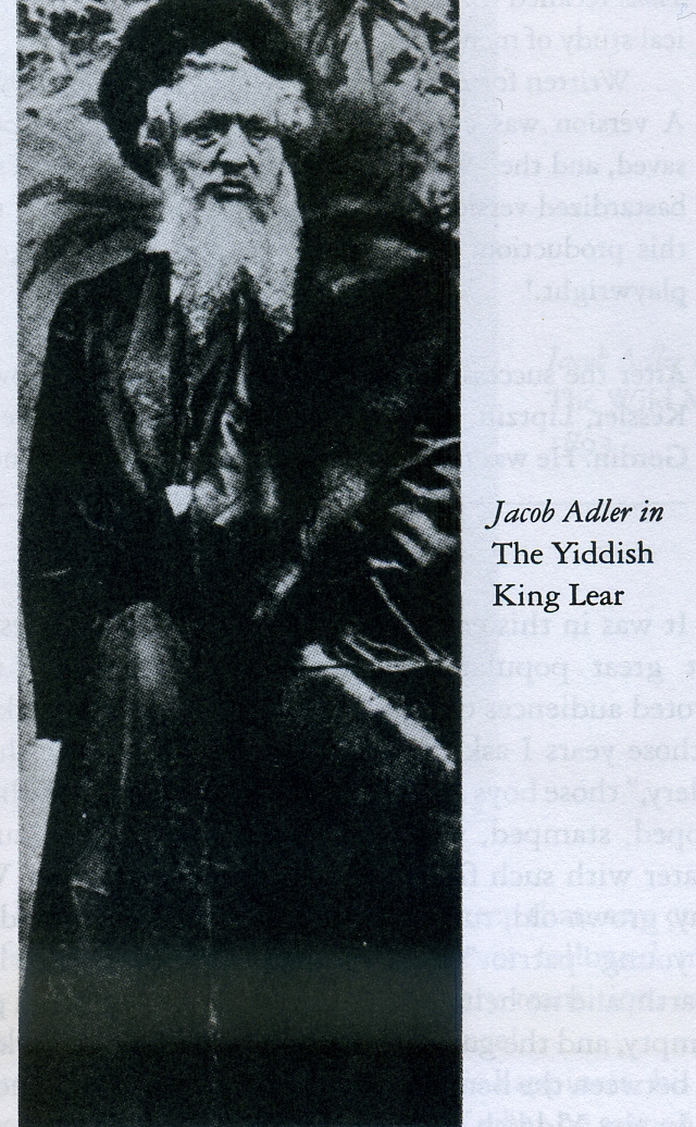 Jacob P. Adler in his role The Yiddish King Lear written by Jacob Gordin.